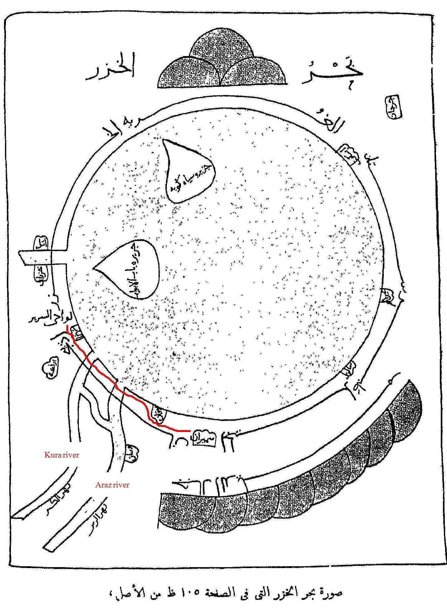 Caspian sea and Azerbaijan position in left side of map in 10 century. Original map is in Ṣūrat al-’Arḍ (صورة الارض; "The face of the Earth") Ibn Hawqal (977) Beyrut) page 419